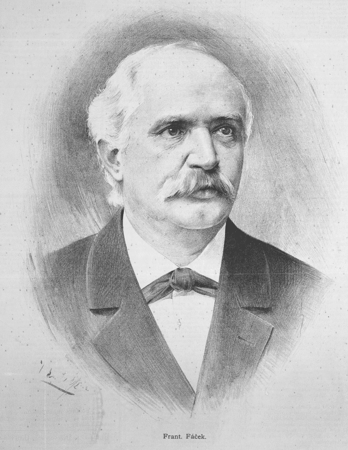 Portrait of František Fáček (1826 - 1889), Czech lawyer and politician.